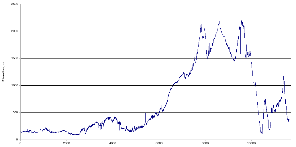 Elevation plot of the 2003 American Solar Challenge from chicago, IL to Claremont, CA. Elevation data is in meters.